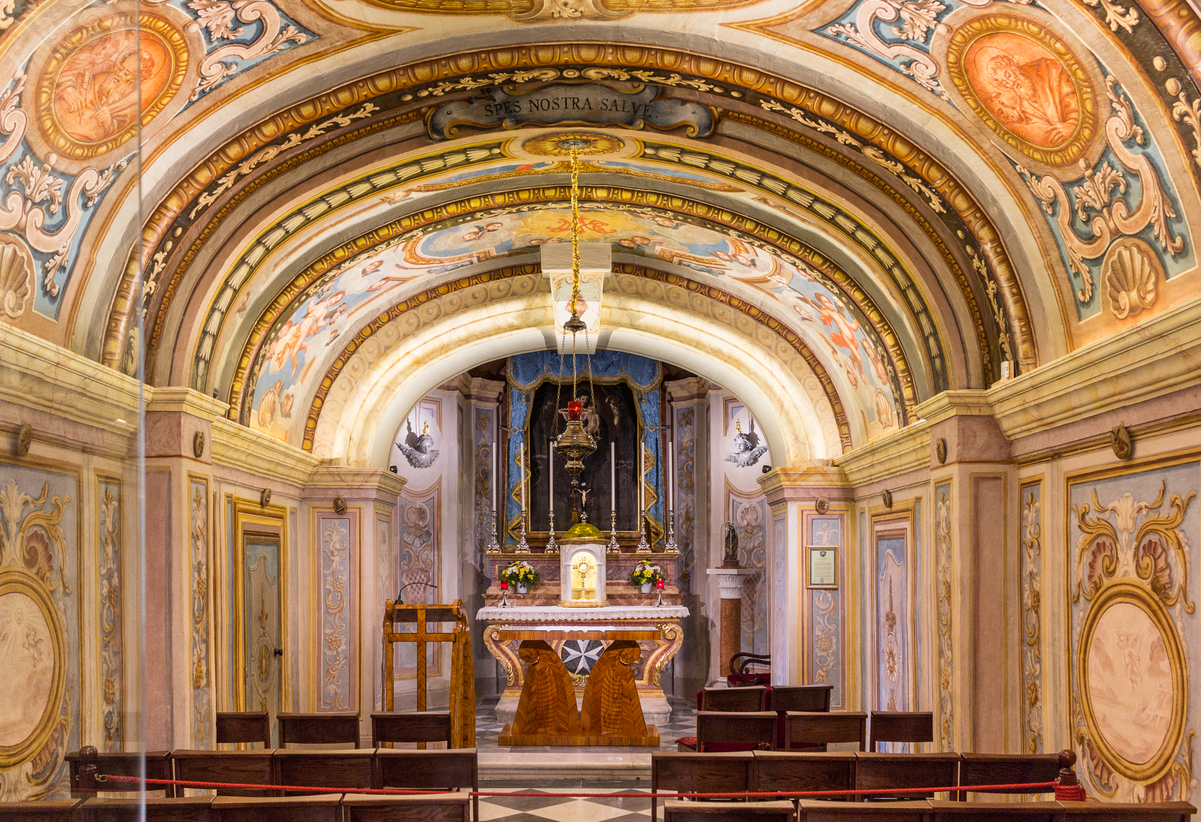 This media is about Maltese cultural property with inventory number 01152.